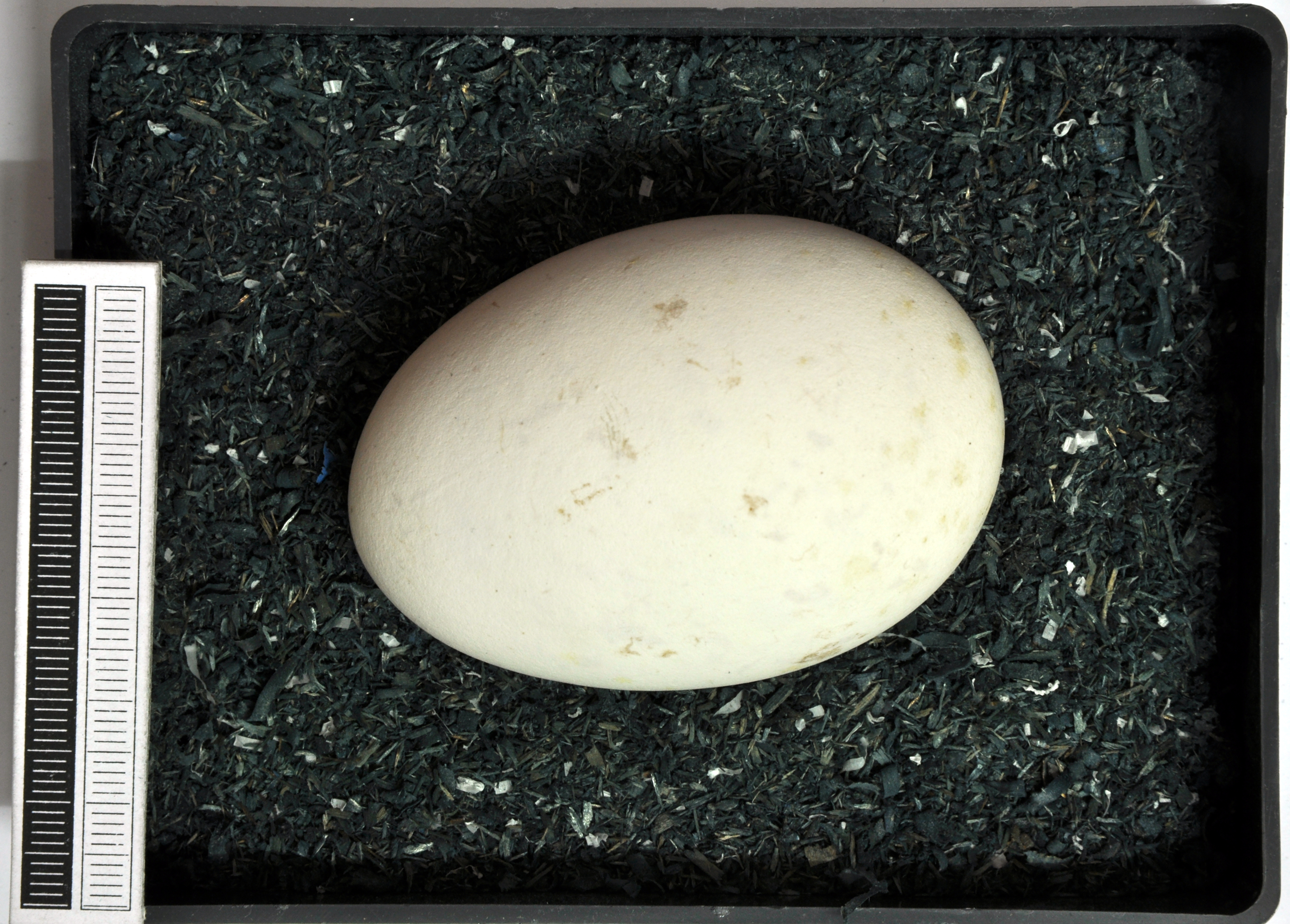 Atlantic puffin Fratercula arctica, egg, Coll. Museum Wiesbaden, Origin: Spitsbergen, Norway, 26.06.1975, leg. W. Abelmann